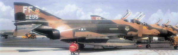 F-4E of the 1st Tactical Fighter Wing MacDill Air Force Base Florida.